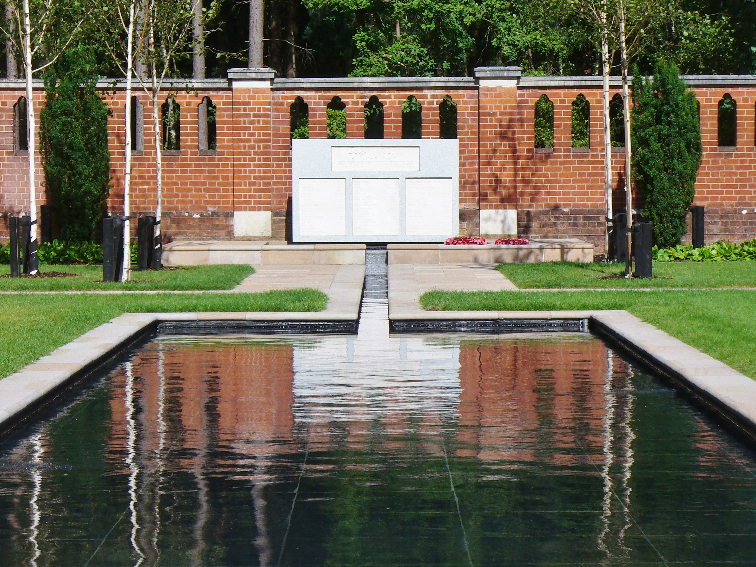 Woking - Peace Memorial Garden. Refurbished 2015, this garden was formerly known as the Muslim Burial Ground and dedicated to all the Muslim soldiers of the British Indian Army who died in WW1 and WW2.